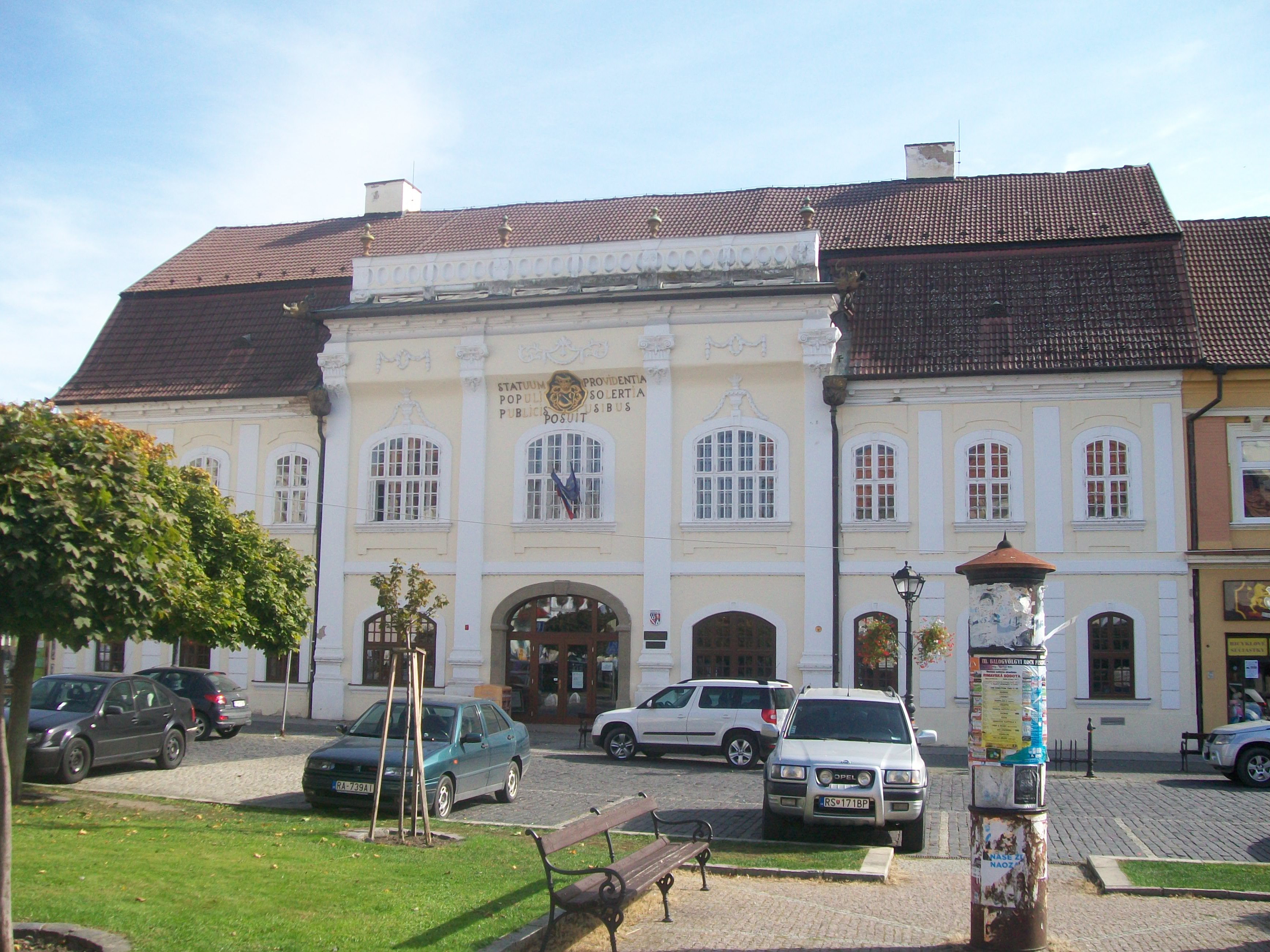 Former County House, today Library of Matej Hrebenda, the building was built in 1798.